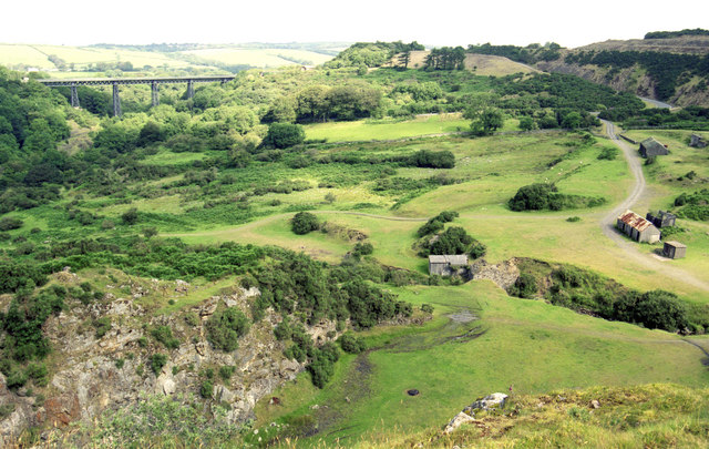 Site of quarry at Meldon Nature is slowly reclaiming this area although there is much evidence of its industrial past. The existing quarry is located on the hillside at the top right of the image.